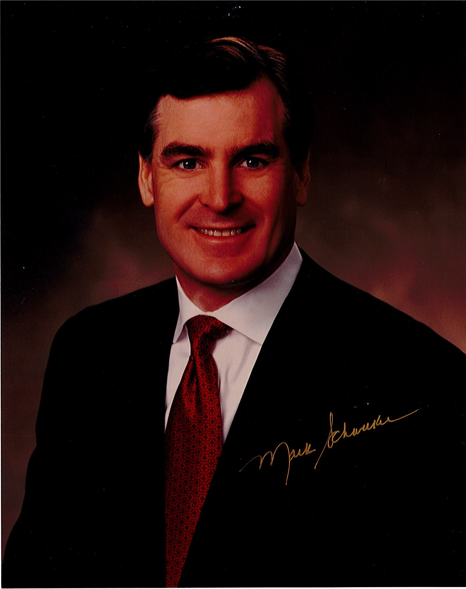 Mark S. Schweiker, March 2001